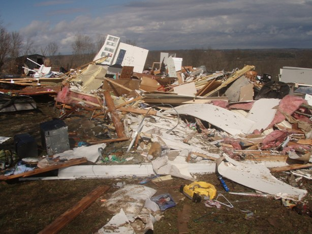 Photo of a mobile home destroyed by an EF0 tornado near Taylorsville, Kentucky on May 31, 2009.